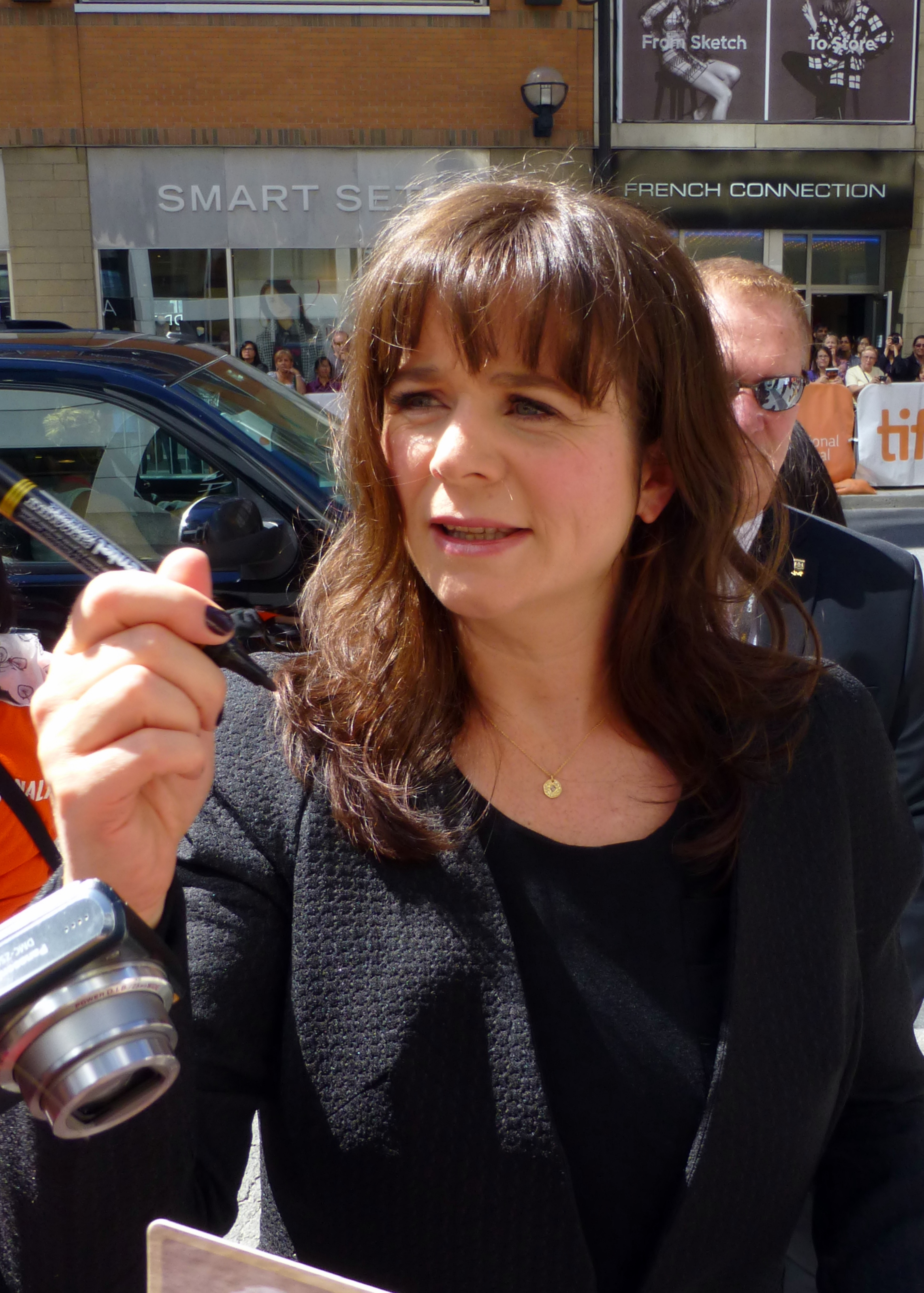 Emily Watson at the premiere of Belle, Toronto Film Festival 2013